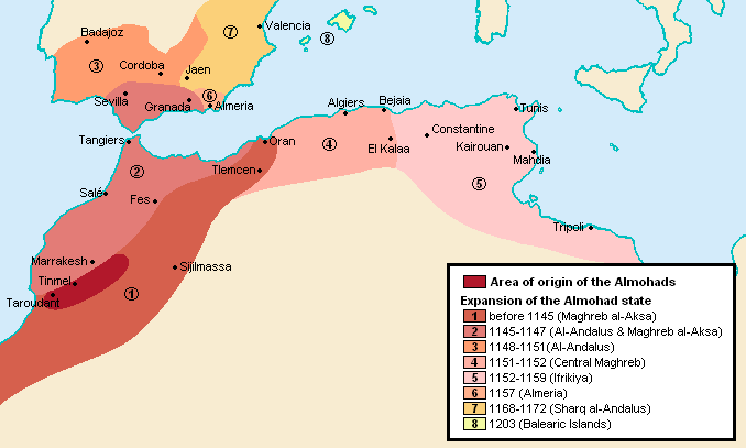 Phases of the Expansion of the Almohad empireOwn mde map, mainly based on G. Duby, L'Atlas Historique Mondial, Ed. Larousse 1987 (ISBN:2-7028-2865-5)